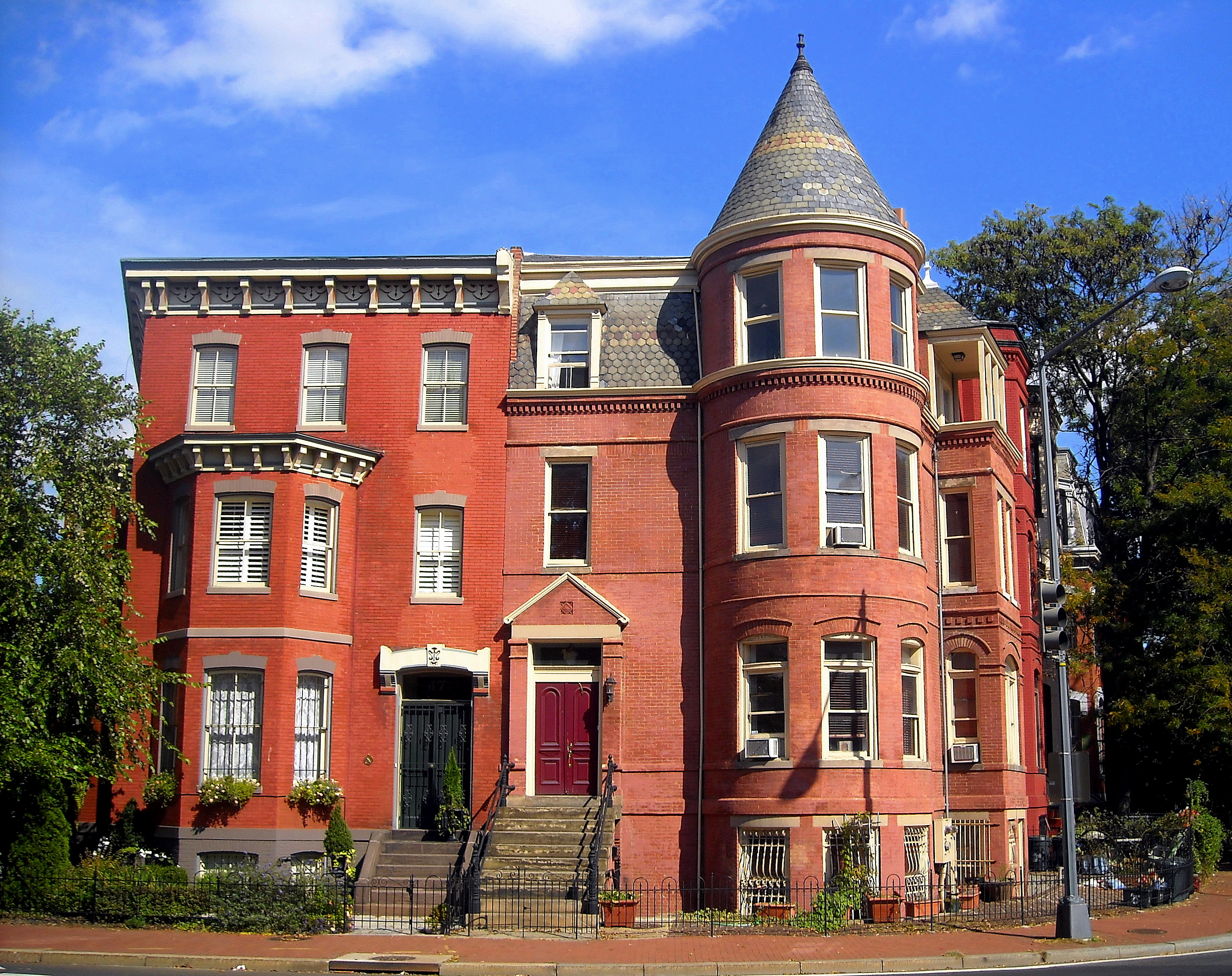 Homes located on the northeast corner of Logan Circle in Washington, D.C. Pictured are 17 Logan Circle (left; built 1890; 2009 property value is $975,700) and 18 Logan Circle (right; built 1914; 2009 property value is $775,360; former home of Ambrose Bierce). The Victorian-style buildings are contributing properties to the Logan Circle Historic District and Greater Fourteenth Street Historic District.